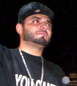 Subliminal